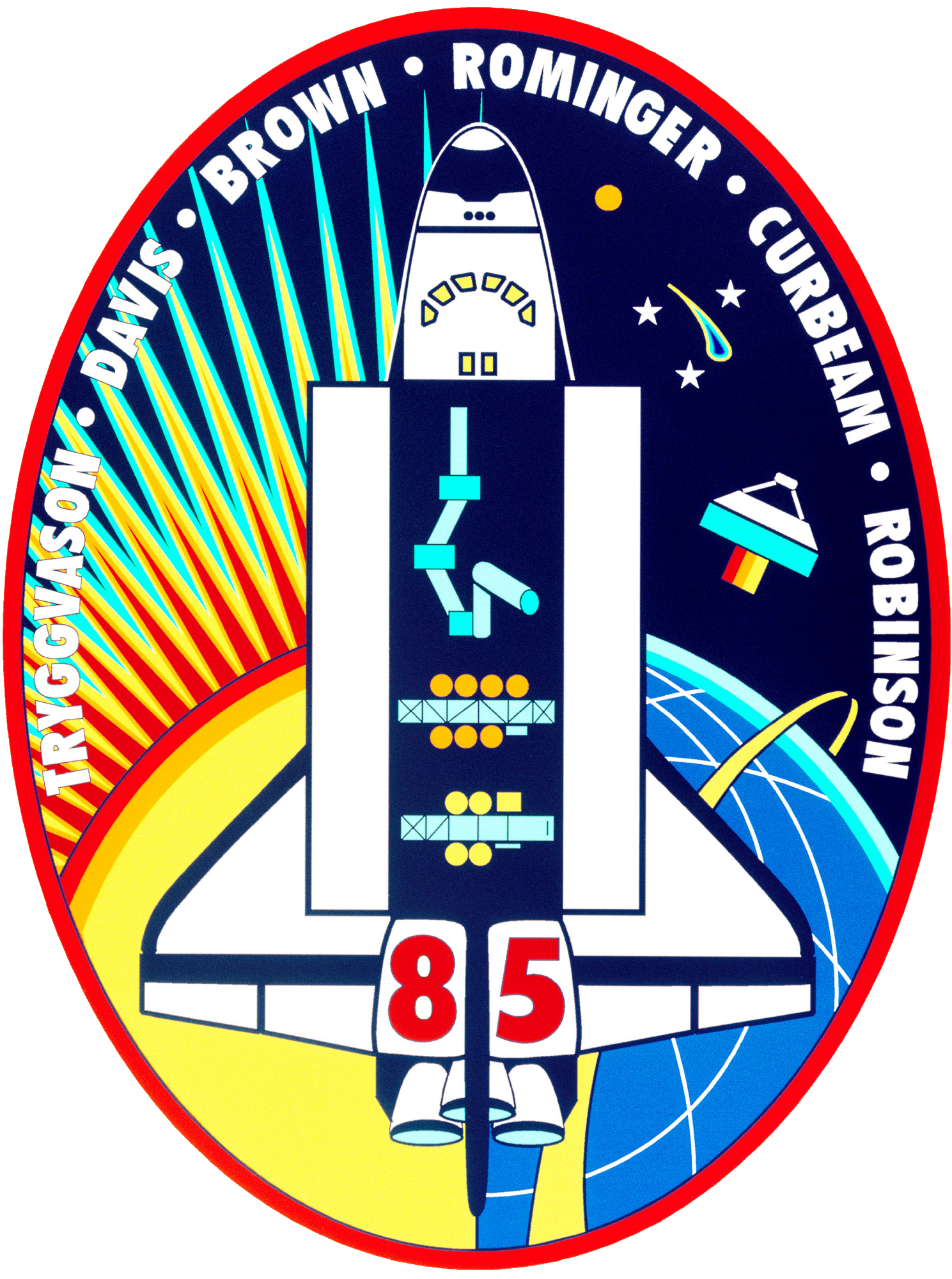 The mission patch for STS-85 is designed to reflect the broad range of science and engineering payloads on the flight. The primary objectives of the mission were to measure chemical constituents in Earth's atmosphere with a free-flying satellite and to flight-test a new Japanese robotic arm designed for use on the International Space Station (ISS). STS-85 was the second flight of the satellite known as Cryogenic Infrared Spectrometers and Telescopes for the Atmosphere-Shuttle Pallet Satellite-2 CRISTA-SPAS-02. CRISTA, depicted on the right side of the patch pointing its trio of infrared telescopes at Earth's atmosphere, stands for Cryogenic Infrared Spectrometers and Telescopes for the Atmosphere. The high inclination orbit is shown as a yellow band over Earth's northern latitudes. In the Space Shuttle Discovery's open payload bay an enlarged version of the Japanese National Space Development Agency's (NASDA) Manipulator Flight Demonstration (MFD) robotic arm is shown. Also shown in the payload bay are two sets of multi-science experiments: the International Extreme Ultraviolet Hitchhiker (IEH-02) nearest the tail and the Technology Applications and Science (TAS-01) payload. Jupiter and three stars are shown to represent sources of ultraviolet energy in the universe. Comet Hale-Bopp, which was visible from Earth during the mission, is depicted at upper right. The left side of the patch symbolizes daytime operations over the Northern Hemisphere of Earth and the solar science objectives of several of the payloads.